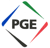 This is a logo owned by Portland General Electric for Portland General Electric.